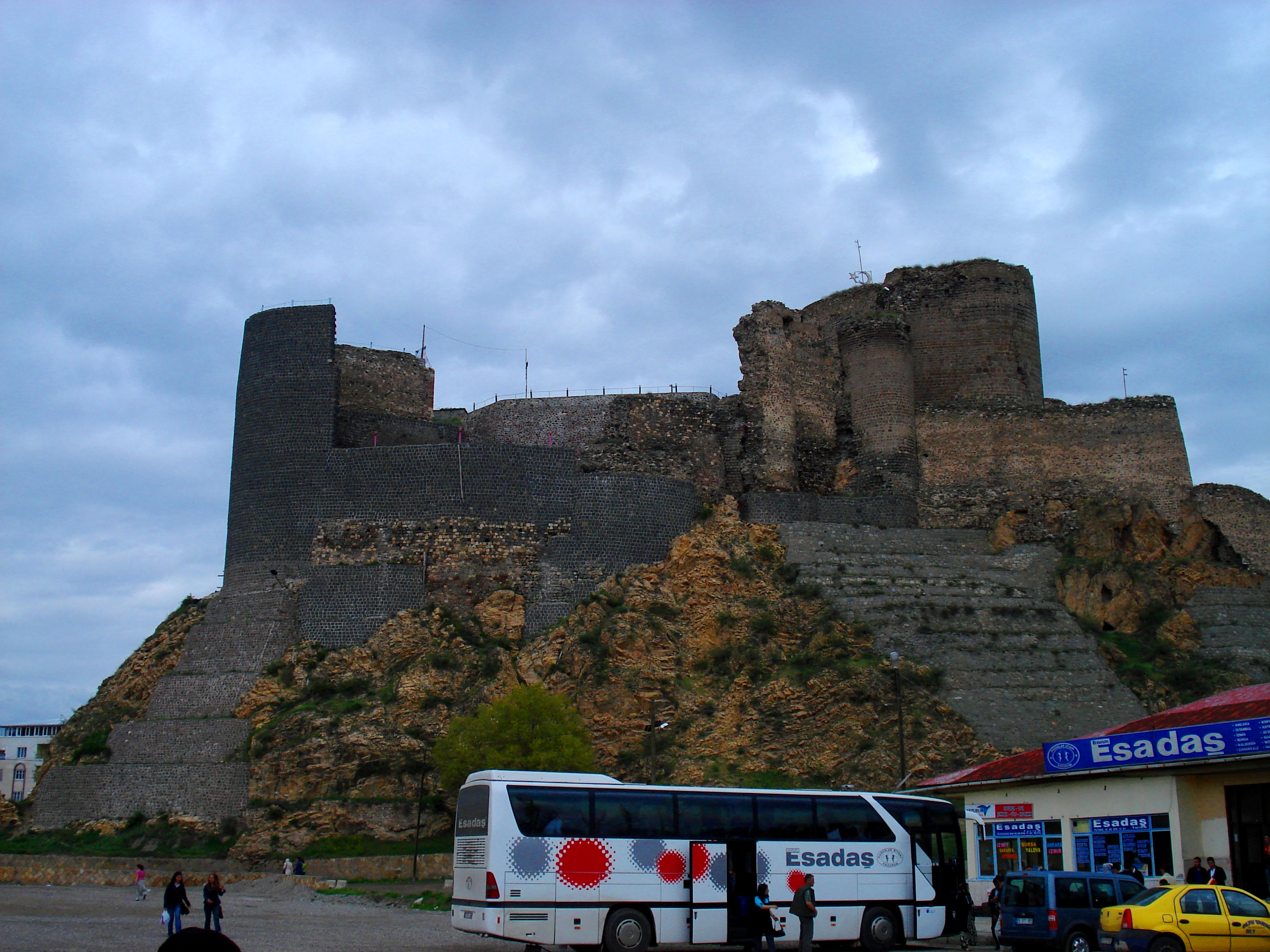 Town and district of Erzurum Province in the Eastern Anatolia region of Turkey